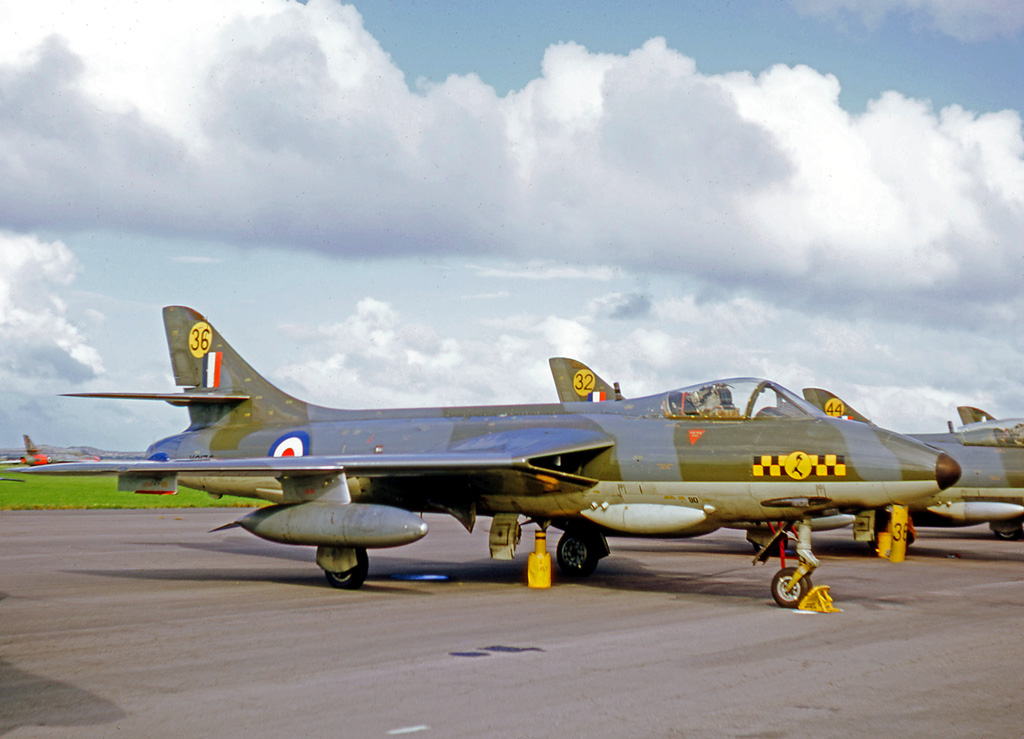 Hawker Hunter F.6 XG172 coded 36 of 63 Squadron RAF, 229 OCVU, at RAF Chivenor in 1969.